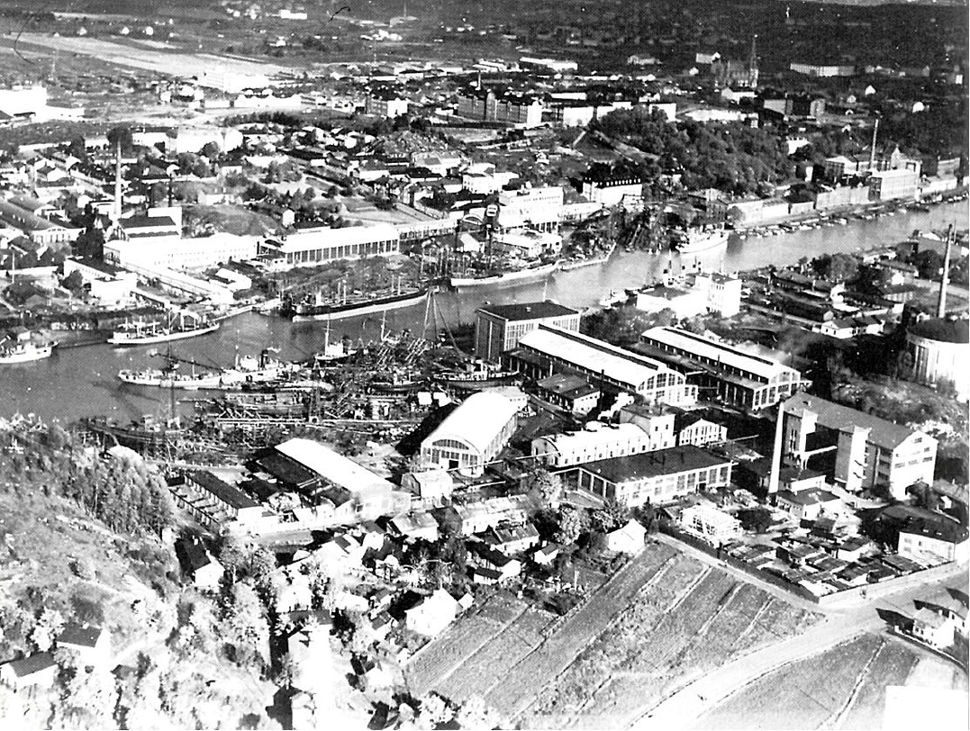 Wärtsilä Crichton-Vulcan shipyard in Turku, Finland.